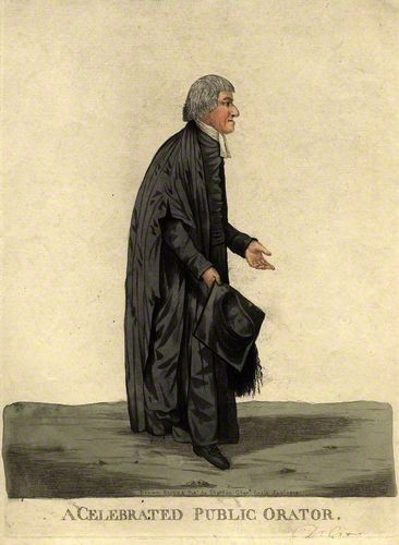 Portrait of William Crowe (1745–1829), English clergyman, academic and poet.